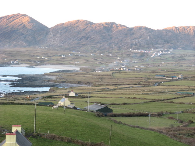 Viewpoint on the R575 before Allihies The Slieve Miskish Mountains towering behind